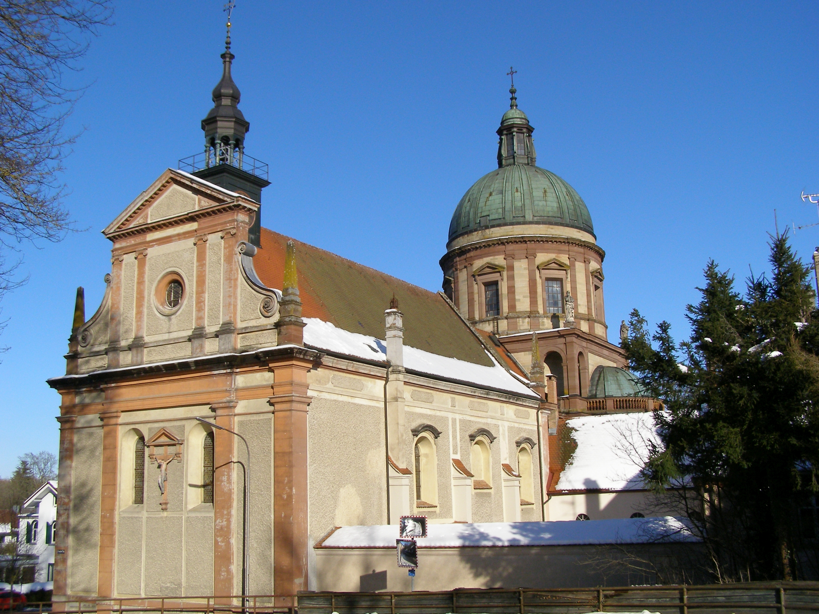 Sigmaringen - Hedinger Church